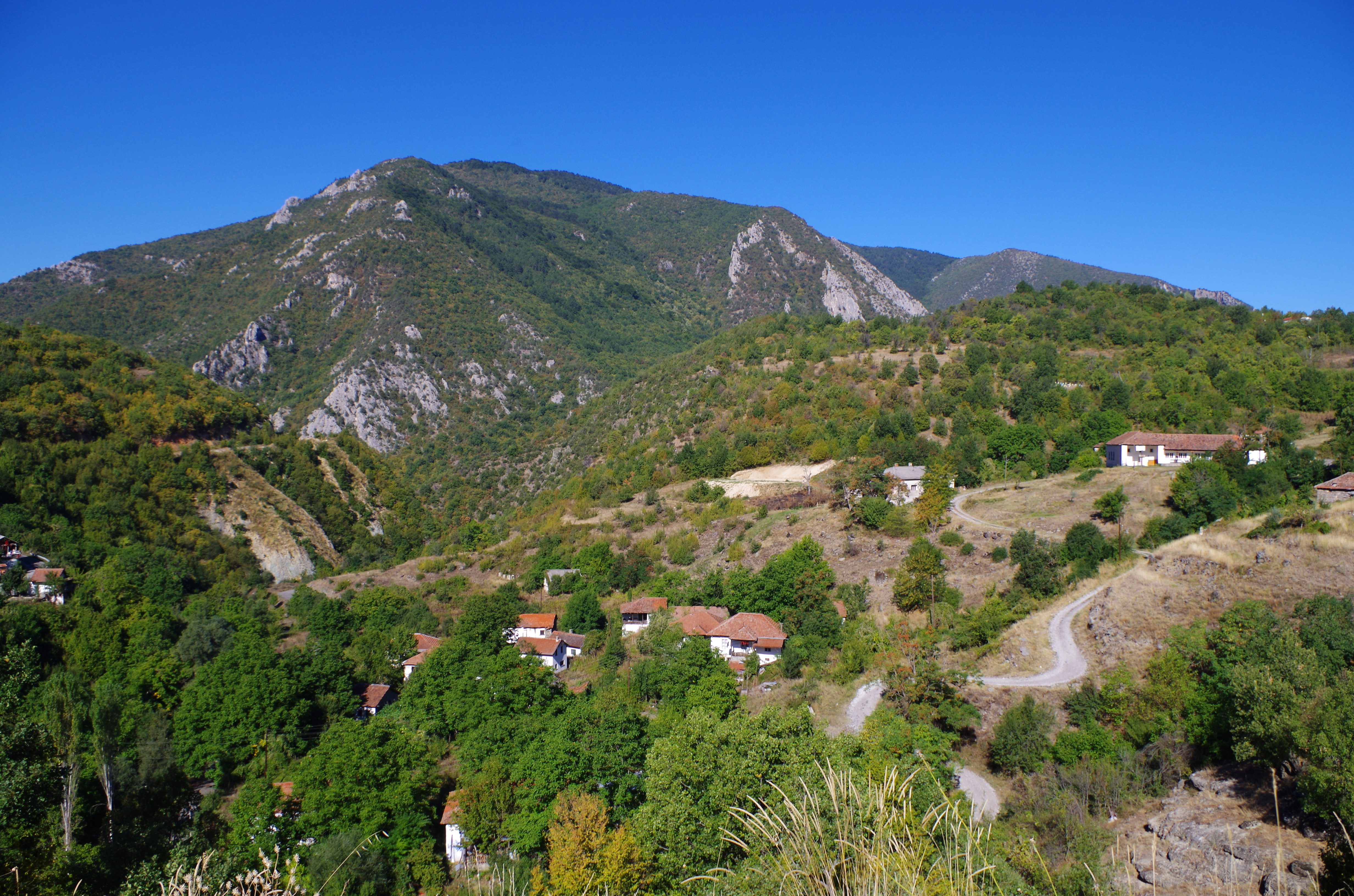 Panoramic view of the village of Mrežičko